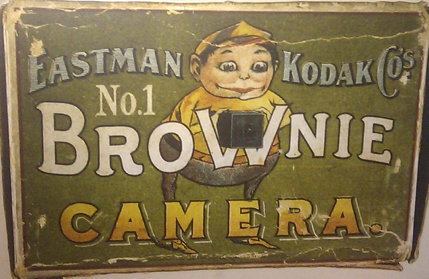 Kodak Brownie advert